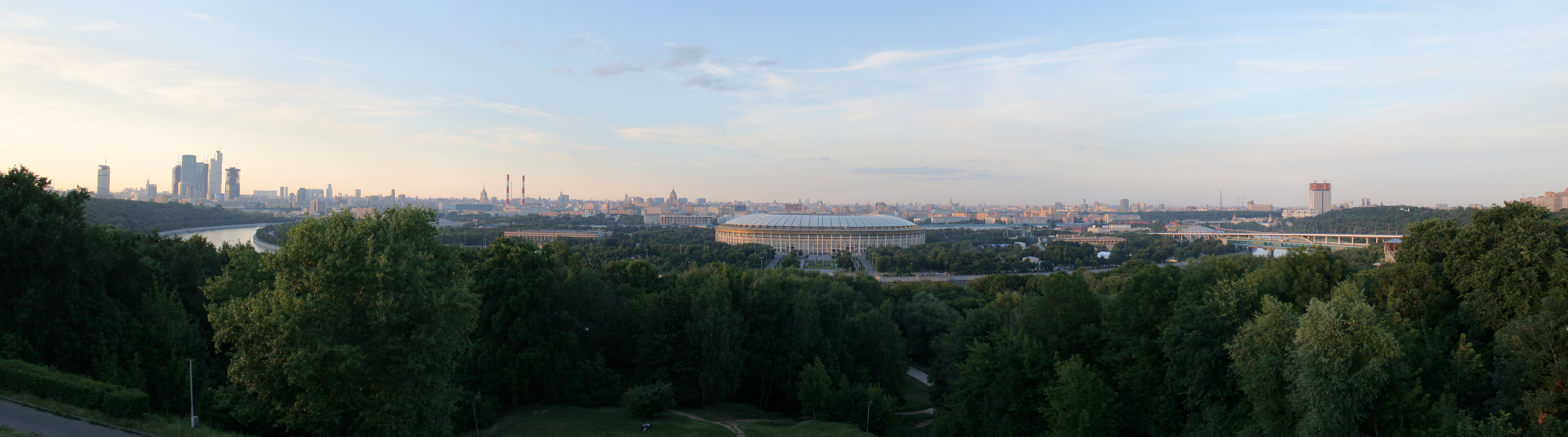 View of Moscow from the Sparrow Hills. This panoramic image is stitched from five single shots using PTGui.